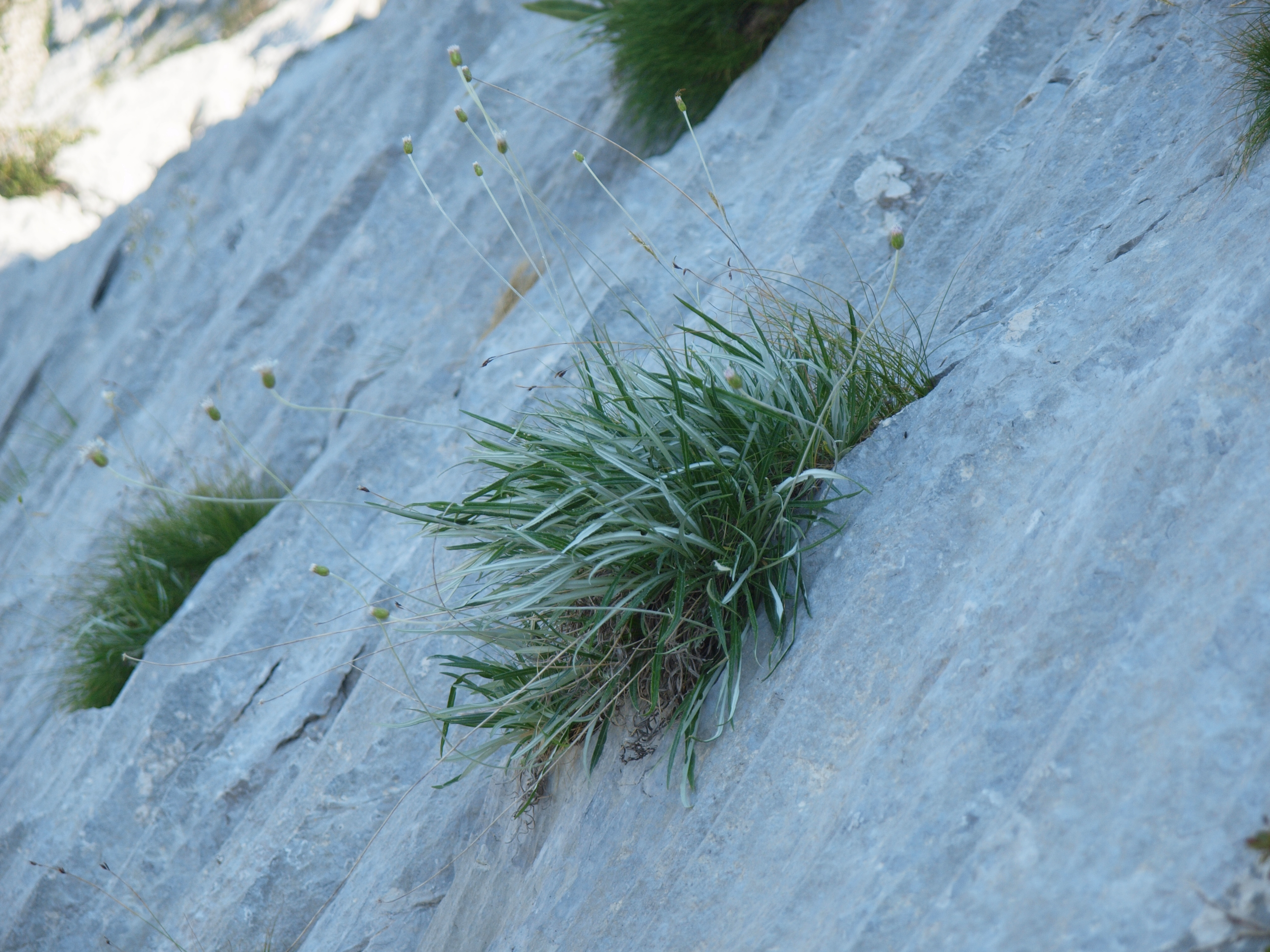 Amphoricarpus neumayerianus at the Reovacka greda Bijela gora Montenegro